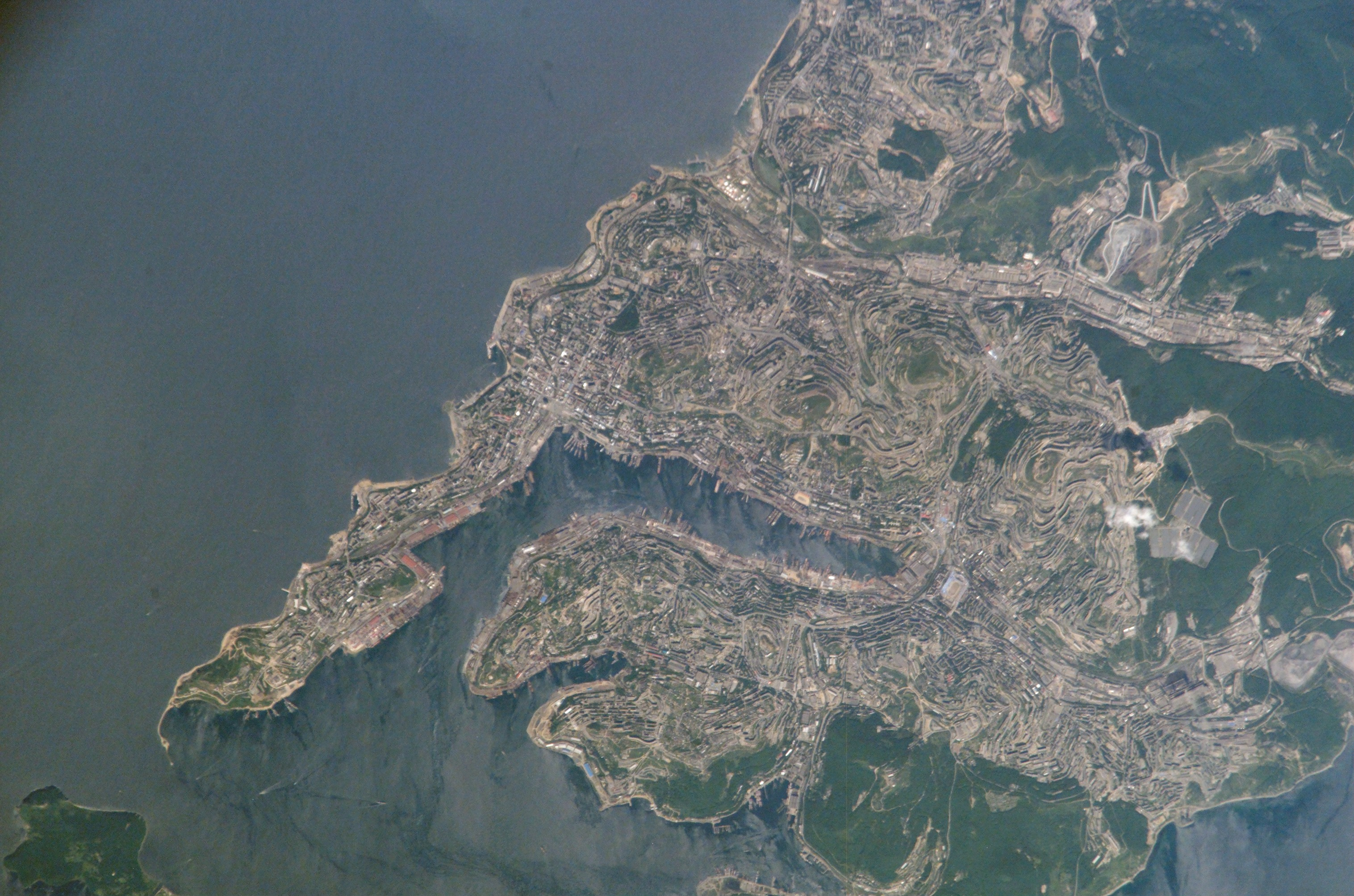 View of Vladivostok from space. (Hi-res) ESC_large_ISS005_ISS005-E-10440.JPG ftp://eol.jsc.nasa.gov/debriefing_highres_ISS005_ISS005-E-10440.JPG